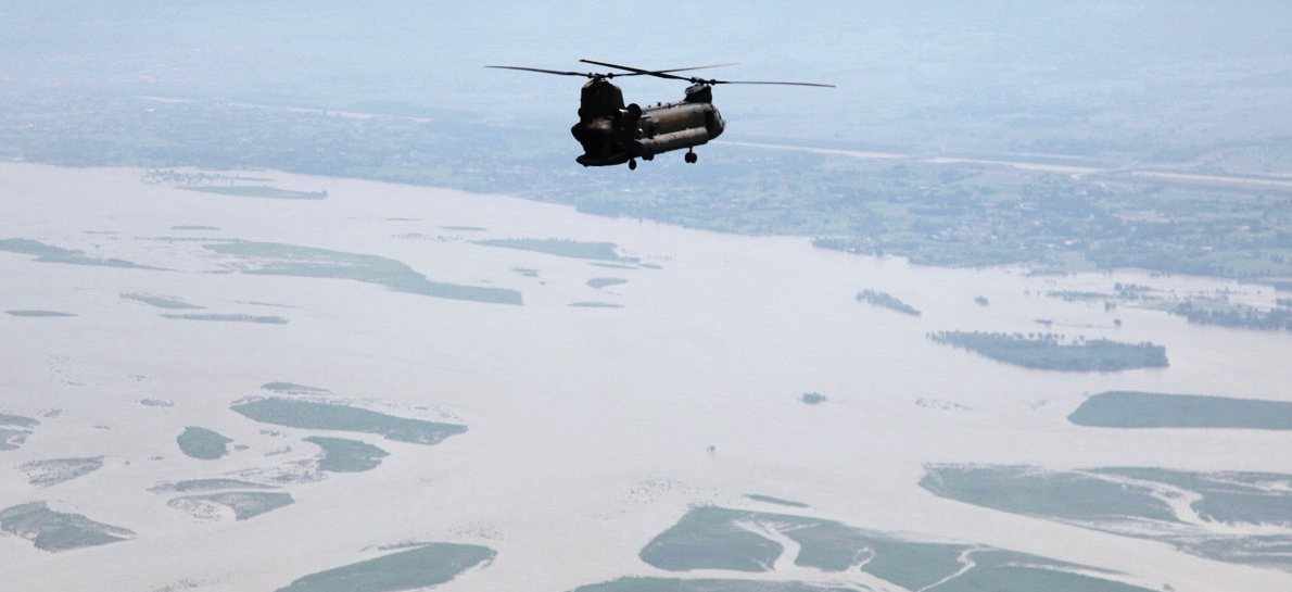 A U.S. Army CH-47 Chinook helicopter flies over a flood-affected area of Pakistan on a return flight from delivering humanitarian assistance and evacuating personnel in the town of Khwazakhela, as part of the flood recovery effort in Khyber Pakhtunkhwa province, Pakistan, August 11th, 2010.